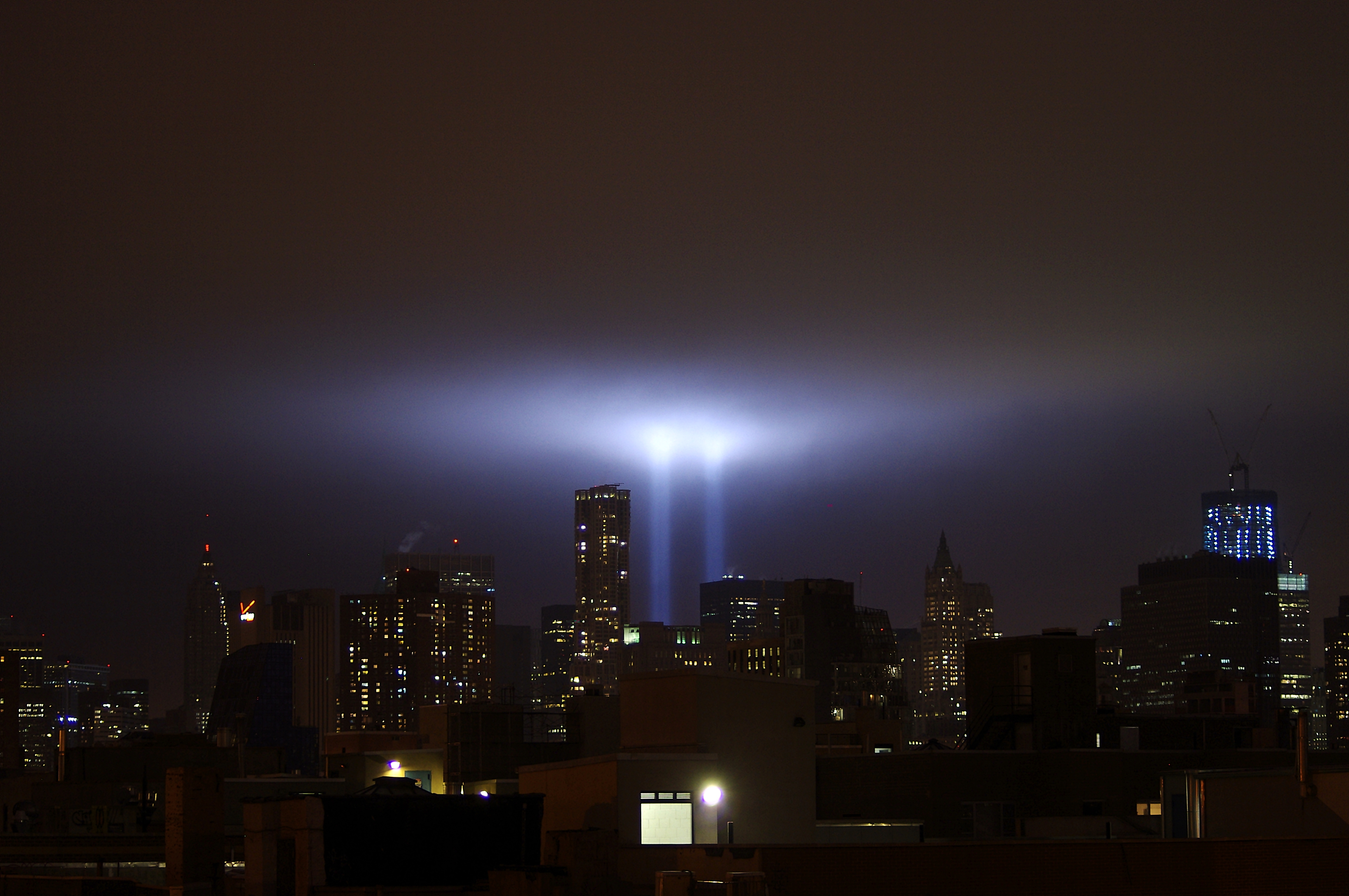 The Tribute in Light on the 10th anniversary of the destruction of the World Trade Center.